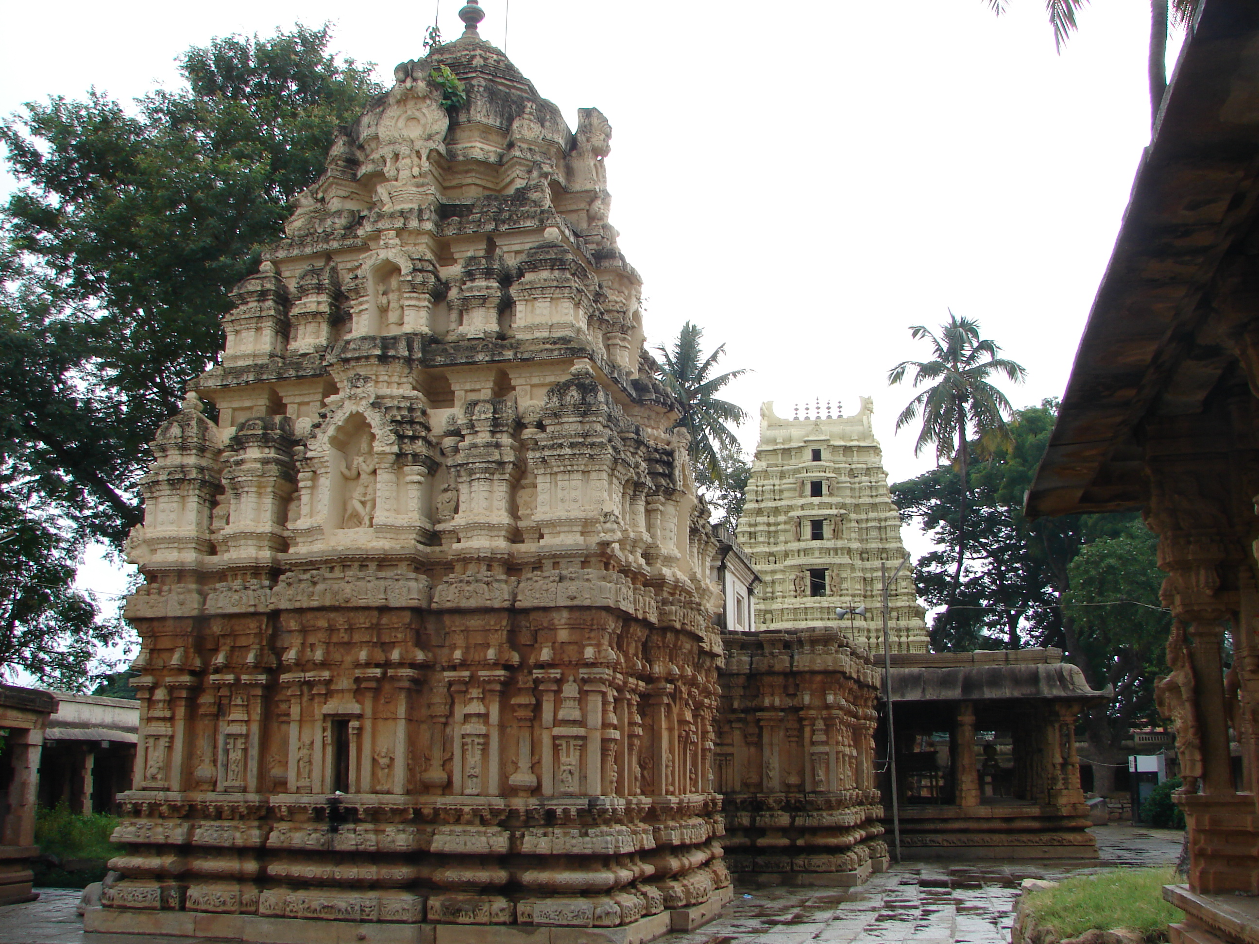 This photograph was taken by me at the Someshvara temple (also spelt Someshwara or Somesvara) in Kolar, Kolar district, Karnataka state, India. The Someshvara temple is an ornate example of early 14th century architecture of the Vijayanagara Empire. The style of the "shikara" (tower over shrine) is Dravidian.